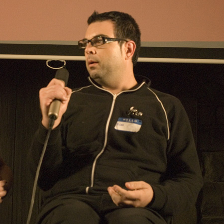 American Film Director Eon McKai at Arse Elektronika 2007, San Francisco, California, U.S.